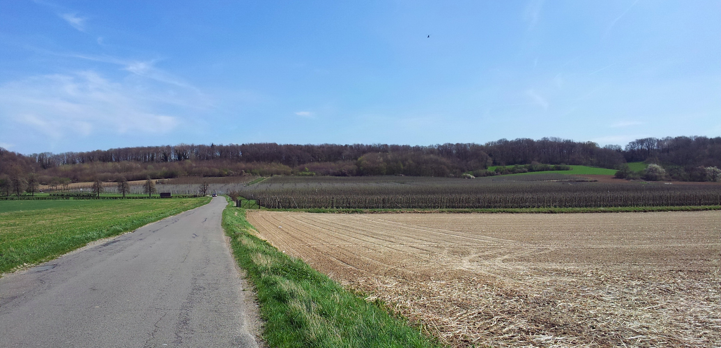 Maastricht, the Netherlands. View towards the east of Bronkweg in Vroendaal.